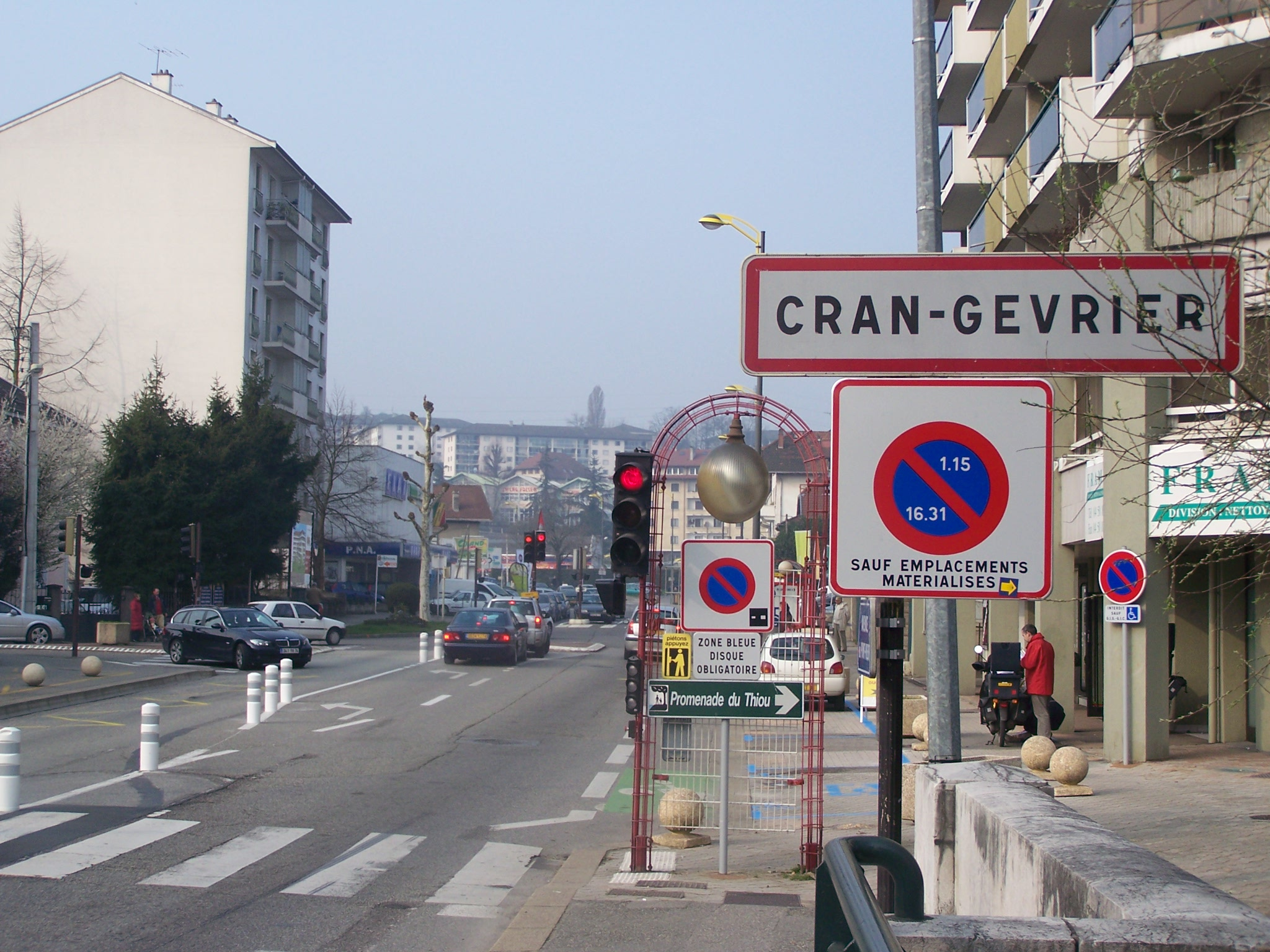 Sign welcoming visitors to the city of Cran-Gevrier when leaving the city of Annecy in Haute-Savoie, France.